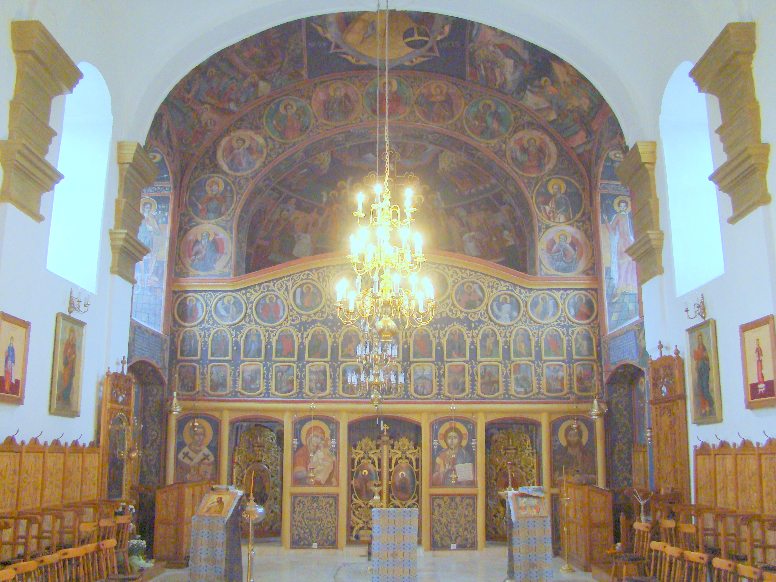 Saint John the Baptist's church in Caransebeș, Caraș-Severin county, Romania